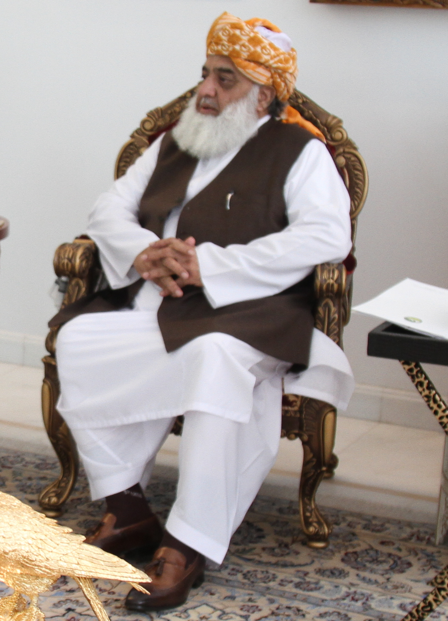 CM Shehbaz with Fazl-ur-Rehman